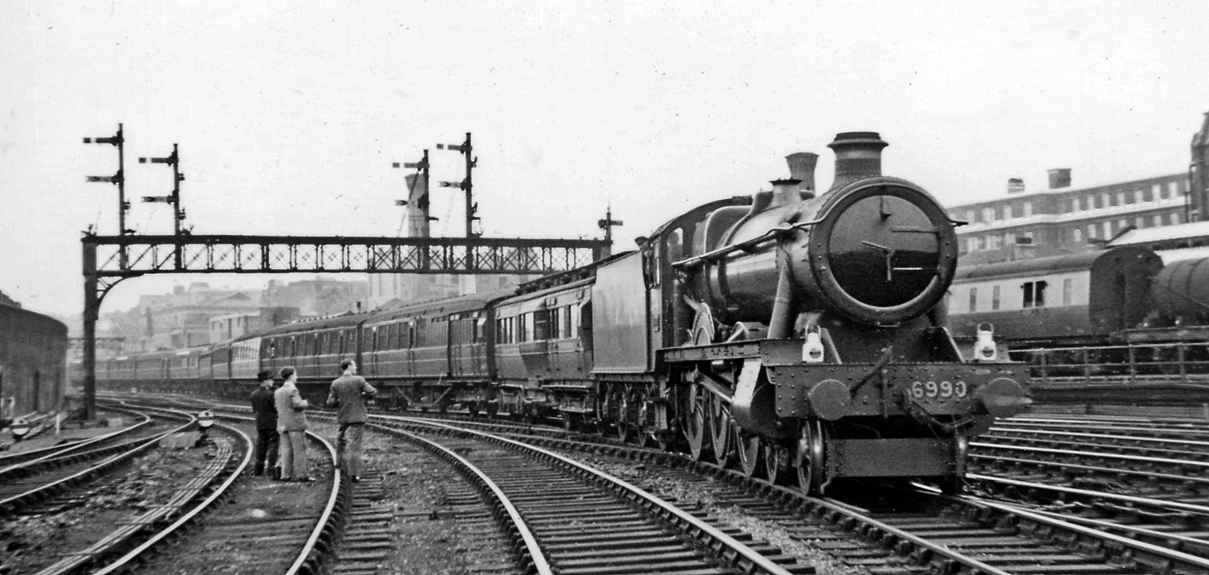 Ex-Great Western 'Modified Hall' 4-6-0 entering Marylebone during the 1948 Exchange Trials. View northward just outside the terminus of the ex-GC London - Leicester - Sheffield main line. No. 6990 'Witherslack Hall' was on test on the 08.25 from Manchester London Road via Sheffield Victoria, during the trials of Mixed Traffic locomotives. (See TQ2782 : Express from Manchester arriving at Marylebone, with an LMS locomotive during the Exhanges for further details). Note that I was not the only one interested.